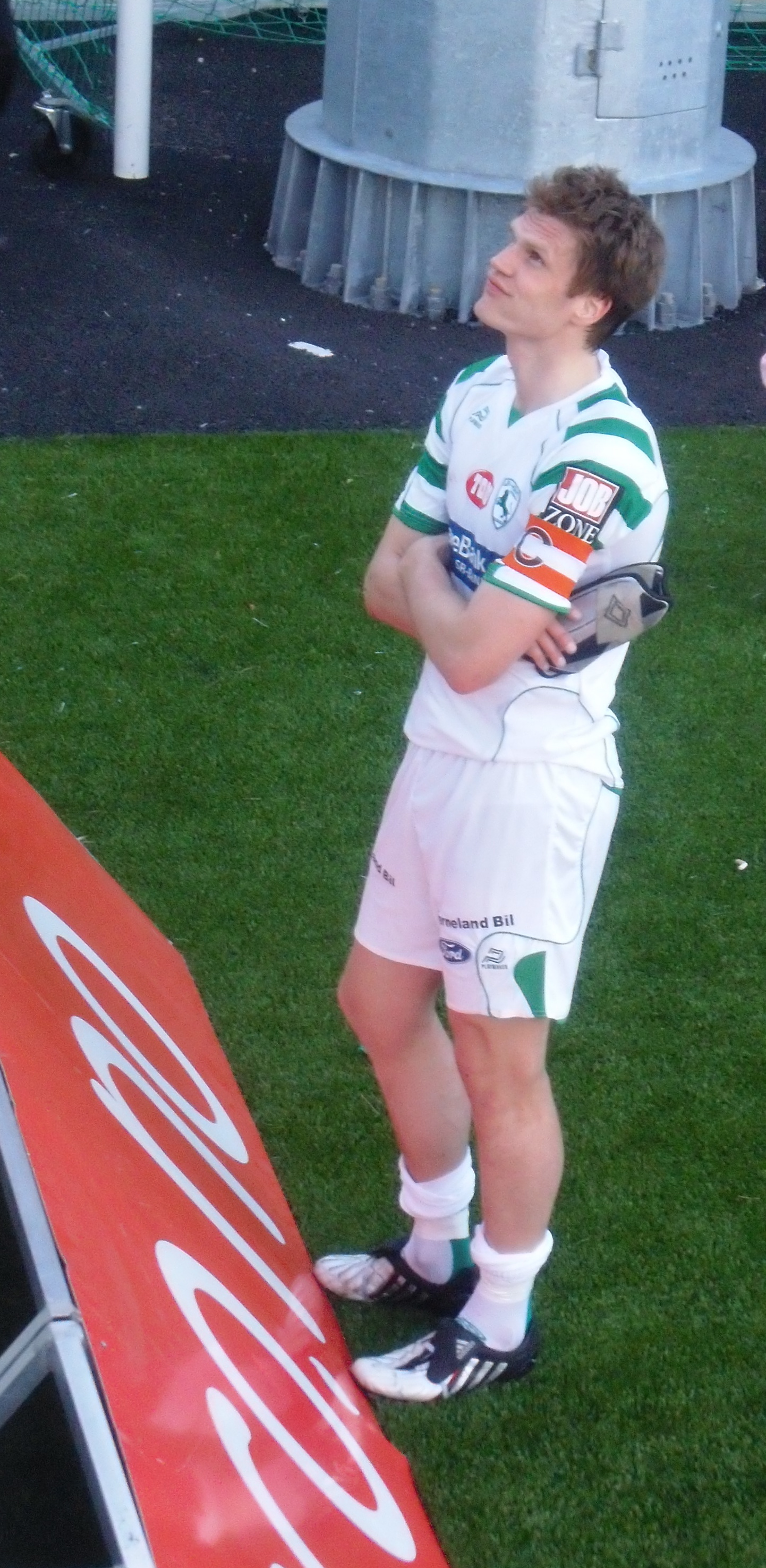 Norwegian footballer Kristian Vange